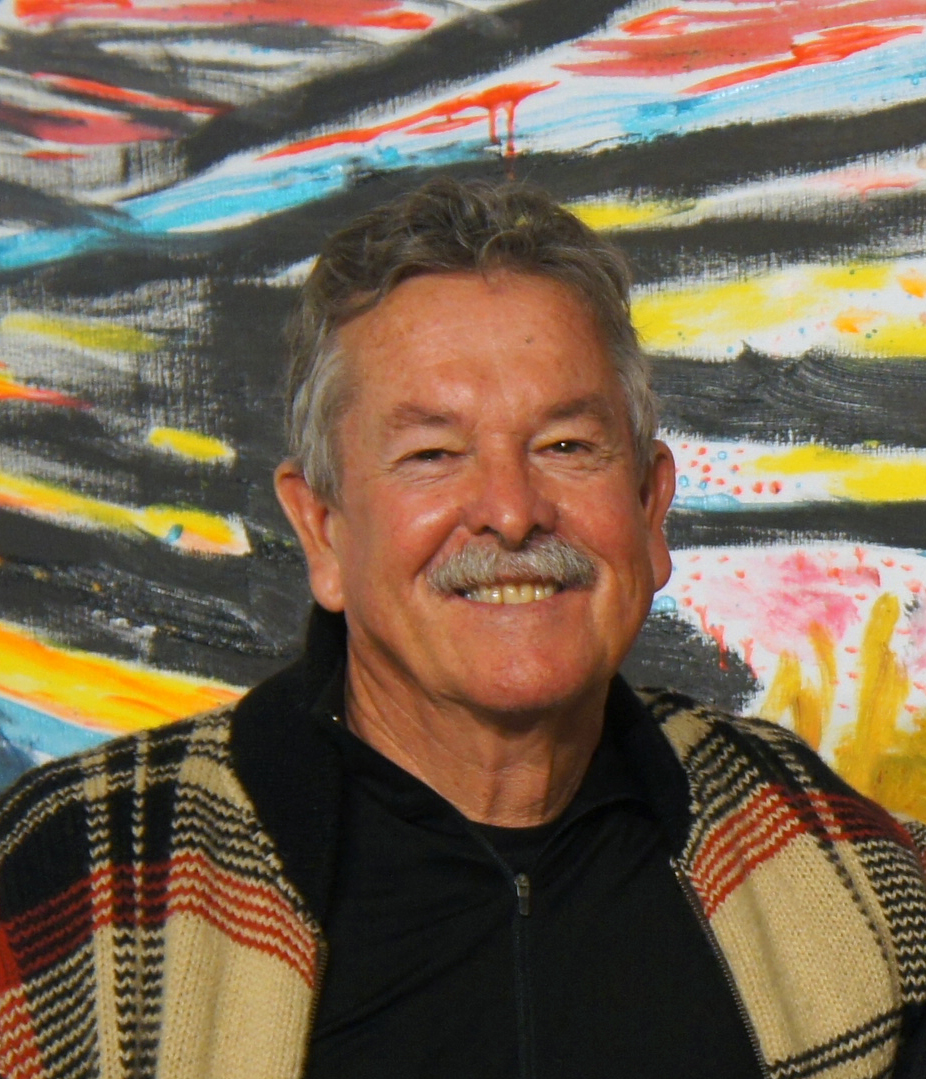 Cropped photo of Australian artist Ken Done at Mosman Art Gallery Open Day in 2010.